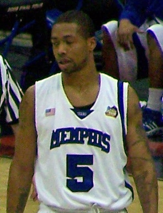 University of Memphis basketball player Antonio Anderson at the 2008 Final Four game vs. UCLA at the Alamodome, San Antonio, TX.